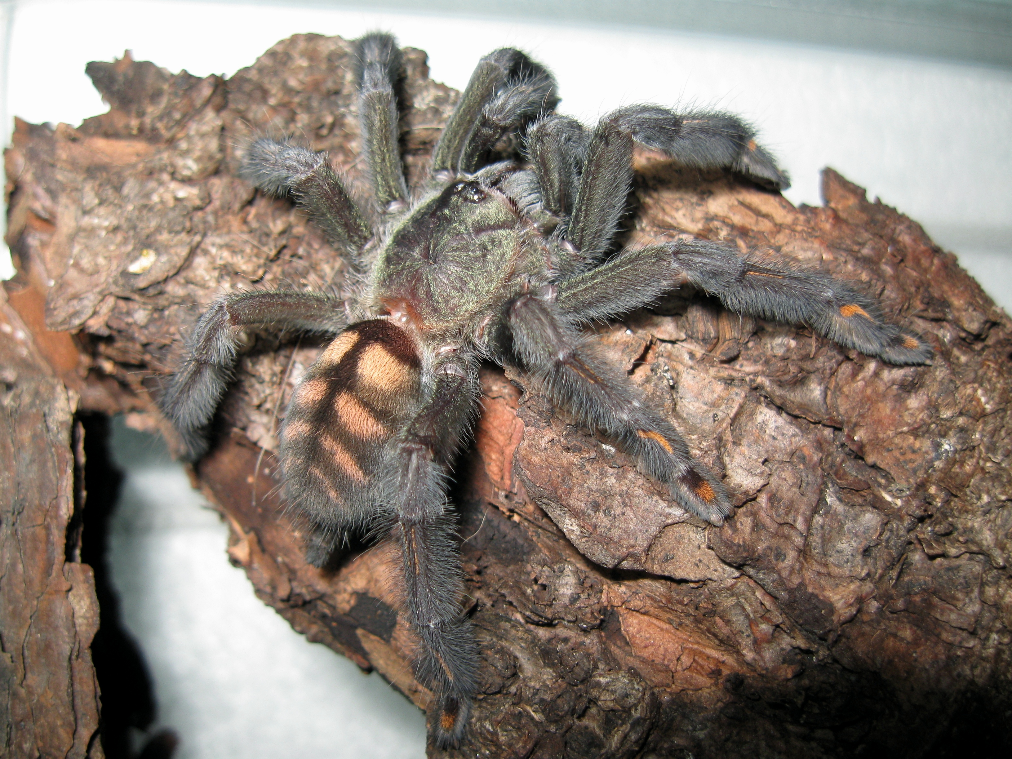 Psalmopoeus irminia